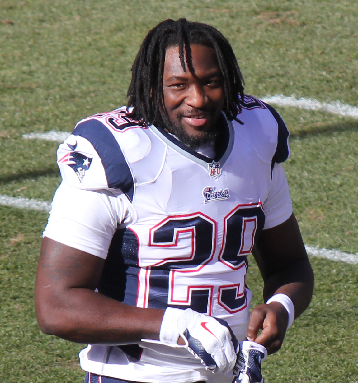 LeGarrette Blount, a player on the National Football League.